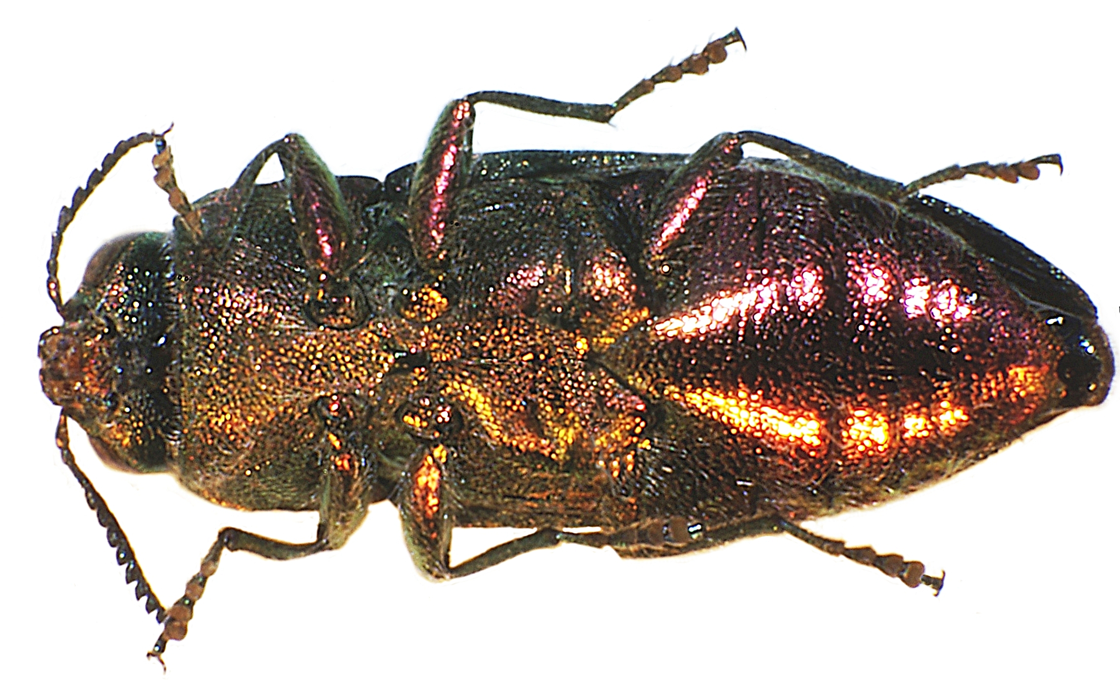 Underside of Anthaxia manca from Eastern Hungary